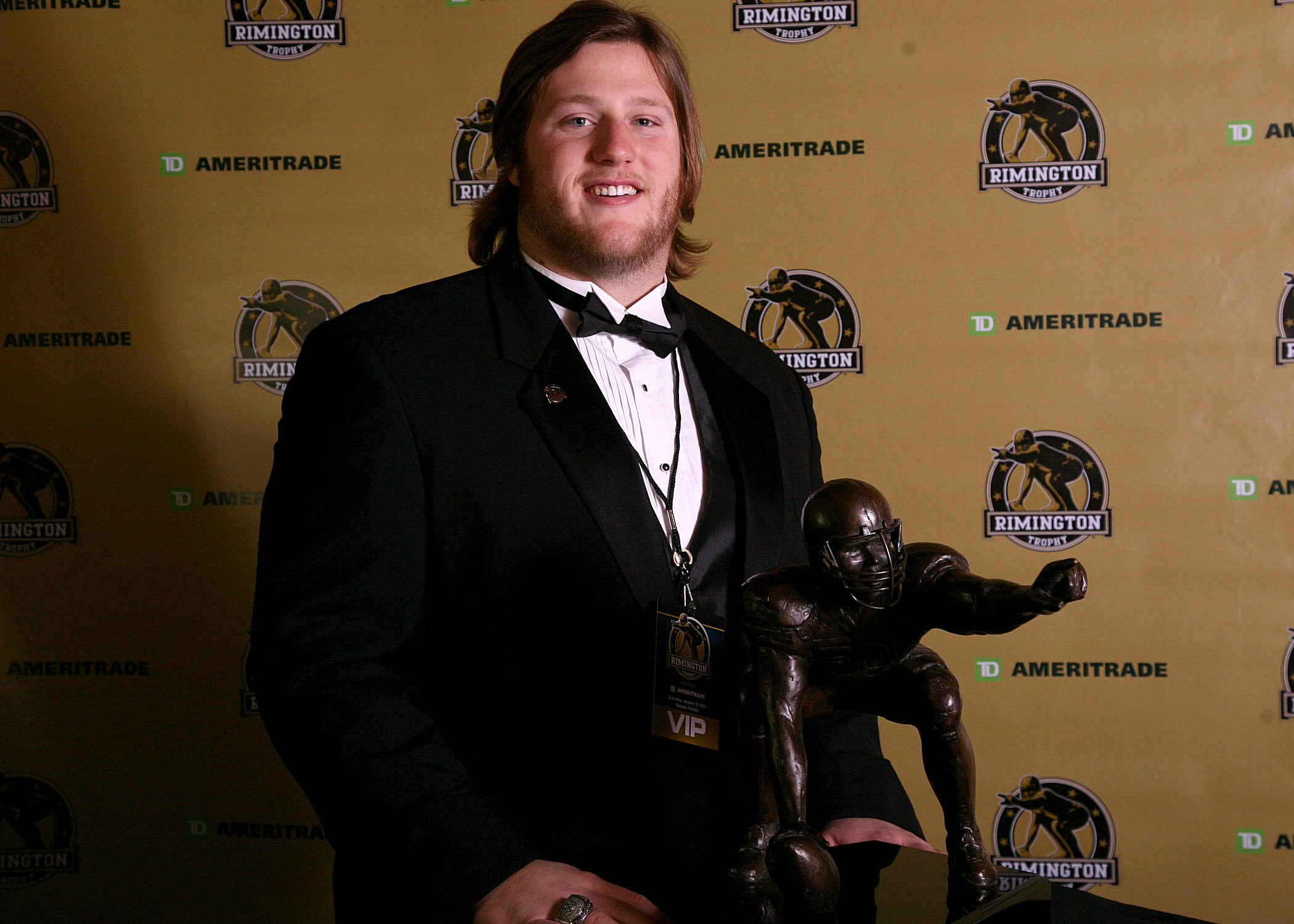 2010 Rimington Trophy recipient